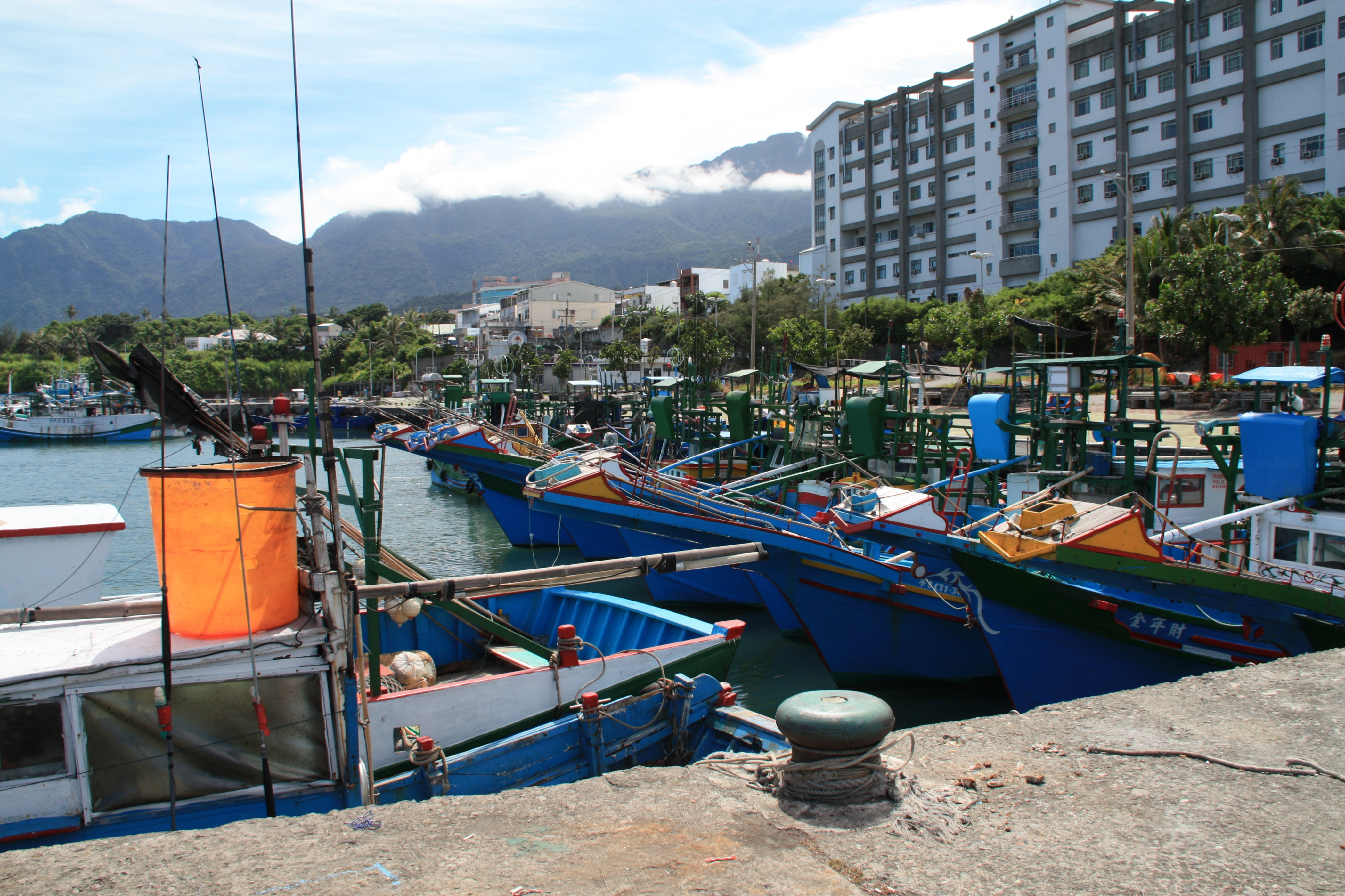 Taitung County Chenggong Chenggong Fishing Harbor